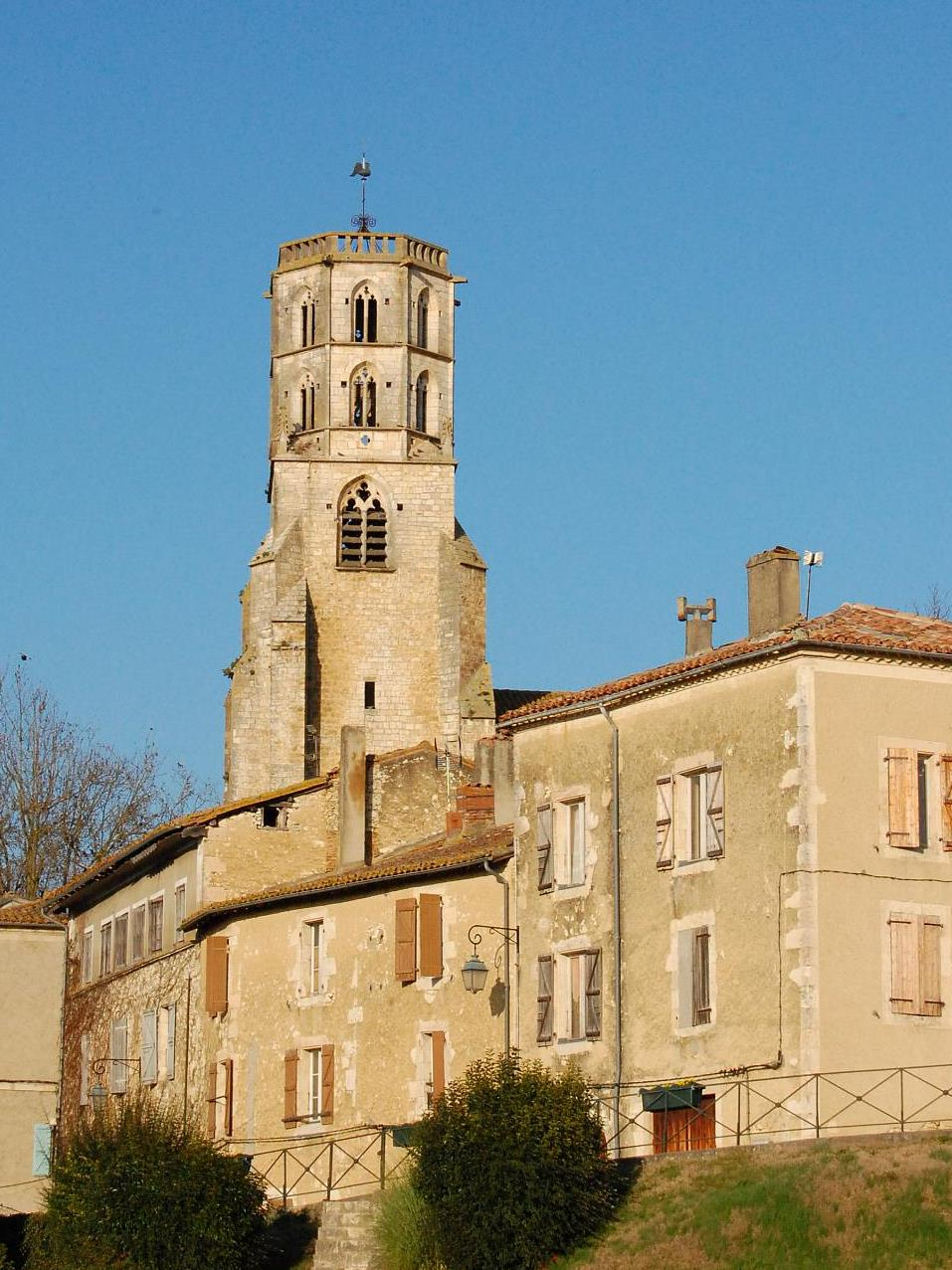 Mauvezin Church, Gers, France .